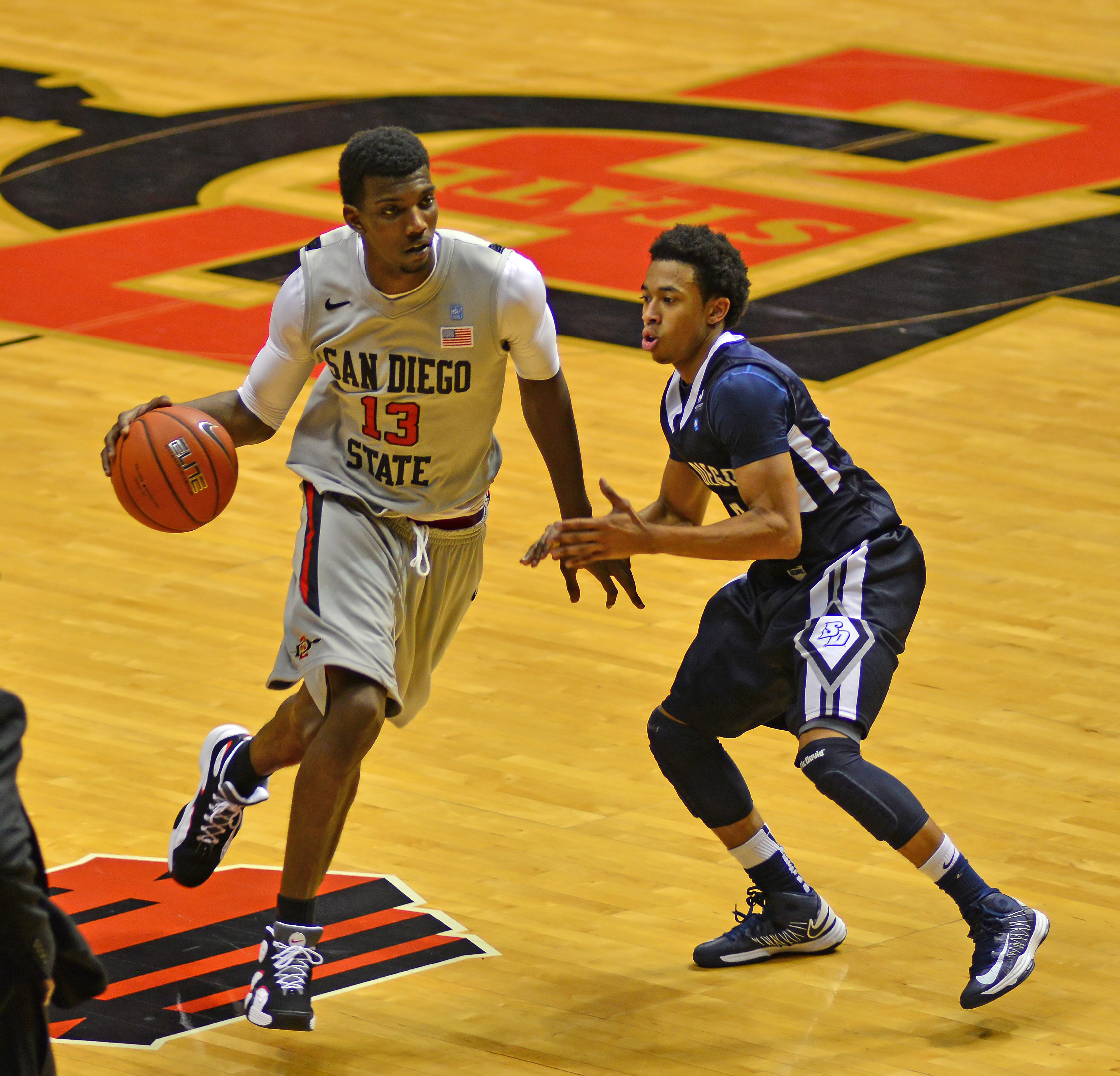 Winston Shepard of the San Diego State Aztecs dribbling the ball Dec 15, 2012 at Viejas Arena